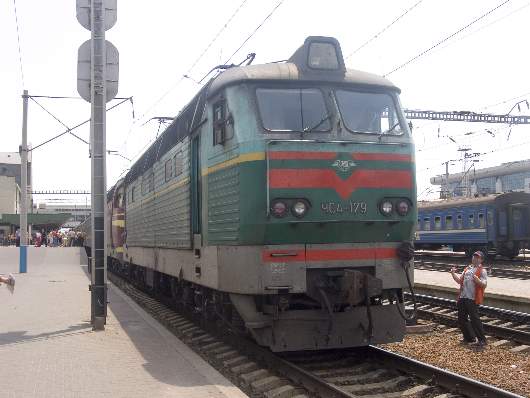 Electic locomotive ChS-4 at Kyiv-Passazhirsij station, Kyiv, Ukraine